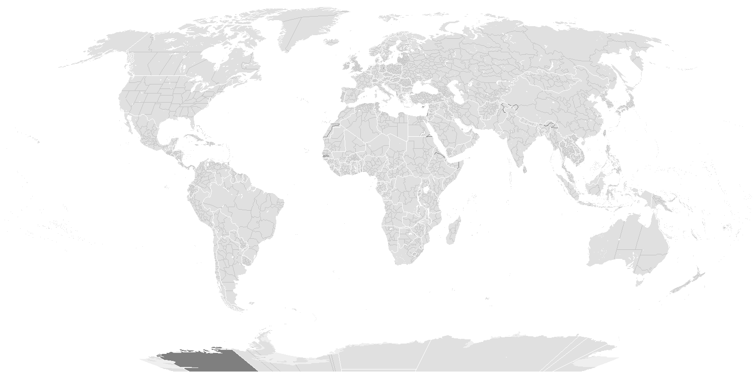 Blank political map of the world c.1985. This is also officially accurate for the period between 1977 (South Africa imposes direct rule on Walvis Bay) - May 22 1990 (Unification of North and South Yemen). Unofficial border changes occurred between 1977 and 1990 which include in 1979 the US de facto hand over of the Panama Canal Zone to Panama (made official in December 1999) and in December 26, 1981 when the Iraq-Saudi Arabia Neutral Zone was partitioned between Iraq and Saudi Arabia but was only officially accepted in 1991. Blank maps of the world for historical use pre-1800 1 · 820 · 1500 · 1710 19th century 1840 · 1861 · 1866 · 1872 · 1898 20th century 1902 · 1912 · 1914 · WWI · Aug 1918 · 1920 · 1921 · 1924 · 1926 · 1935 · 1937 · Mar 1938 · Oct 1938 · Mar 1939 · Oct 1939 · WWII · Nov 1942 · May 1945 · 1957 · 1959 · 1962 · 1970 · 1985 · 1990 · 1993 21st century 2000 · 2005 · 2007 · 2009 · Current (this template: · view · discuss )